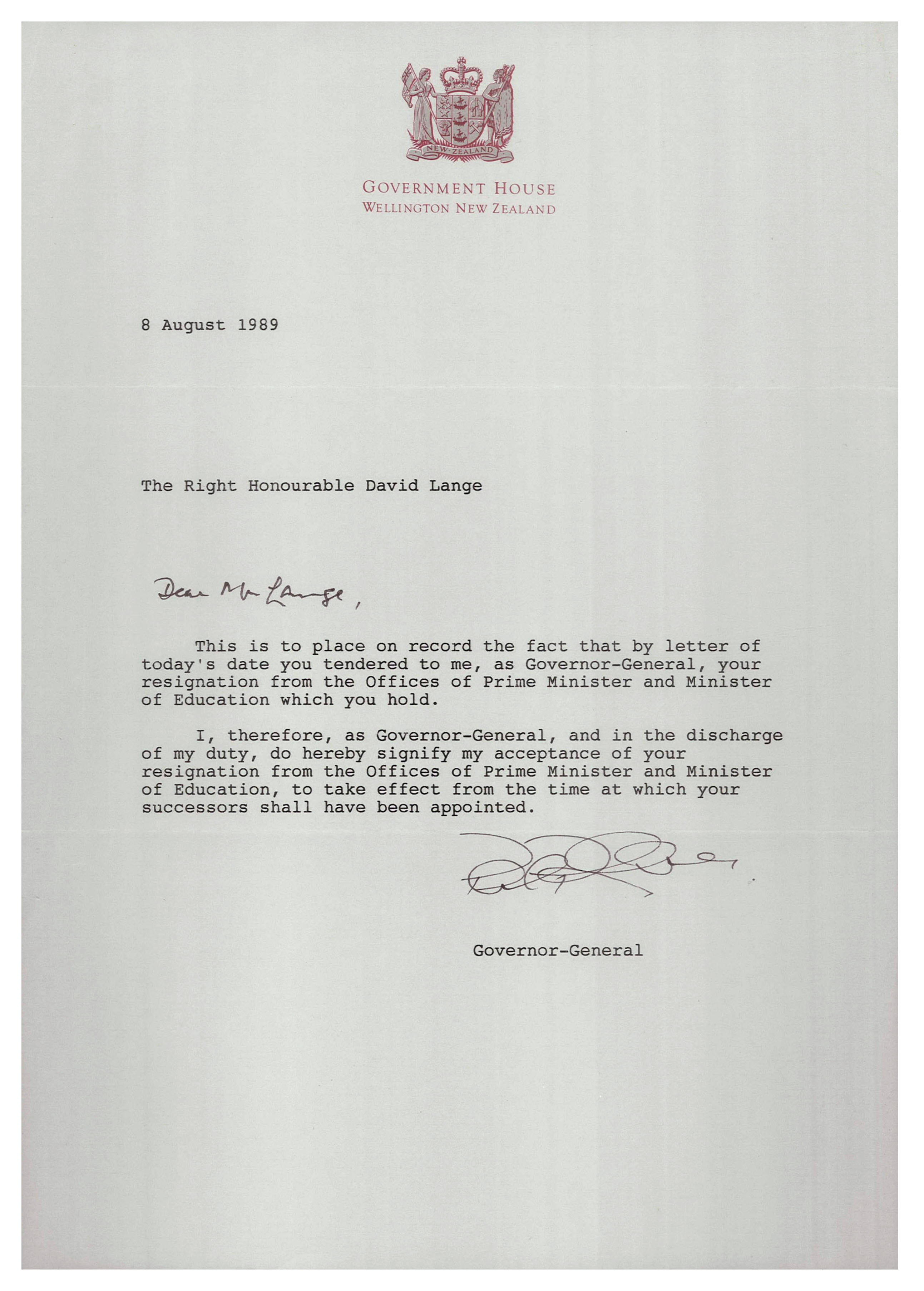 On 8th August 1989 David Lange resigned his post as Prime Minister, handing the position over to Geoffrey Palmer. Lange was leader of the fourth Labour government and Prime Minister of New Zealand from 1984–1989. He was New Zealand’s youngest prime minister during the 20th century and the first Labour leader since the 1940s to achieve a second term as Prime Minister. In 1977 Lange entered Parliament as the Labour MP for Mangere. In 1979 he was elected Deputy Leader of the Opposition, and in 1983 became Leader of the Opposition following the resignation of Bill Rowling. Lange was Prime Minister of New Zealand from 1984 to 1989, presiding over one of the most dramatic periods of political change in New Zealand's history. However he was unsettled by the mounting social effects of Finance Minister Roger Douglas’s neo-liberal economic policies of the late 80s, and in turn destabilised his own government by taking unilateral positions on tax and on foreign affairs. After losing control of Cabinet, he resigned in August 1989. Following his resignation, Lange held the positions of Attorney-General, Minister in Charge of the Serious Fraud Office, and Minister of State, from 1989 to 1990. This record is the acceptance letter of the Governor-General, Paul Reeves, of Lange's resignation as Prime Minister. It comes from a series of political papers on a variety of subjects spanning David Lange's political career. Archives reference: AAWW 7112 W4640 47/ For further enquiries please For updates on our On This Day series and news from Archives New Zealand, follow us on Twitter Material from Archives New Zealand